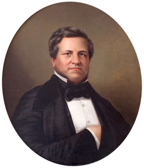 Portrait of Benjamin Pitman from the Peabody Essex Museum. Database catalog entry: Portrait of Benjamin Pitman, 19th century Oil paint, canvas, frame H: 39 in, frame W: 34 in, frame D: 2 3/4 in Gift of Mr. Charles D. Childs, 1966., M12771